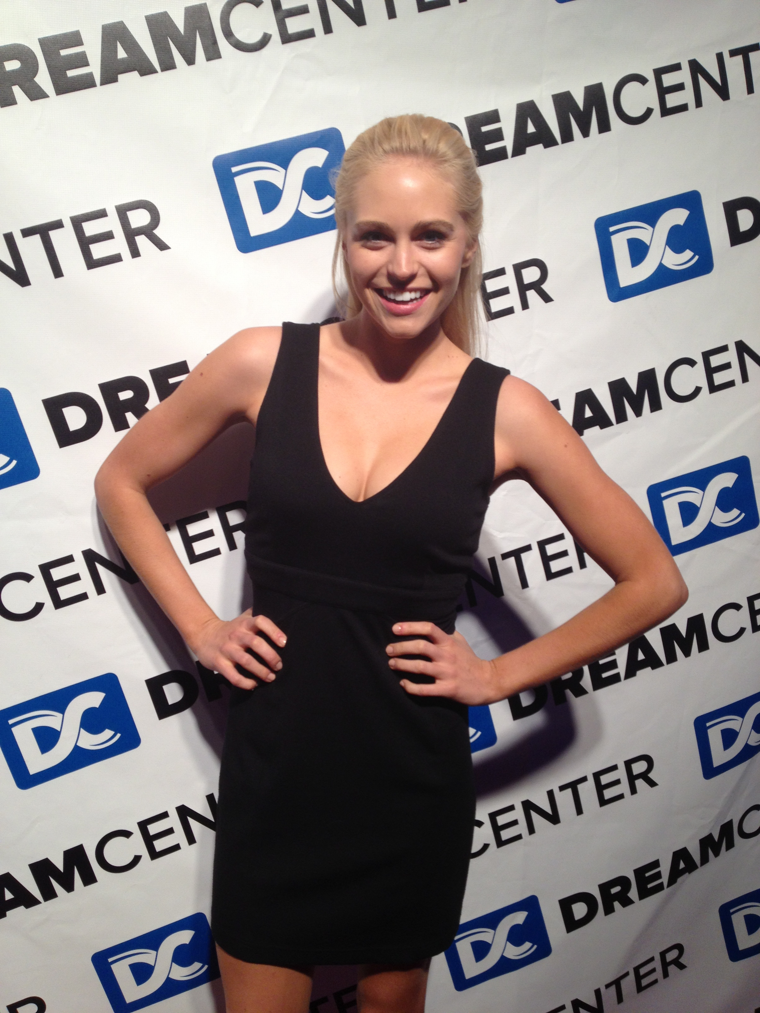 Lindsey Sporrer on the Red Carpet for the Night of Dreams fundraiser for the Dream Center